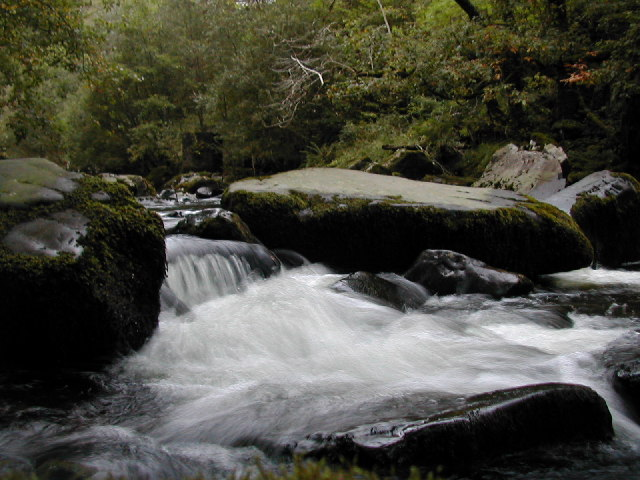 Afon Eden. This close up of the Afon Eden is taken at a spot adjacent to the Coed Y Brenin forest activity centre car park. Hard to believe that the huge boulders in the stream were hurled there by the power of this stream.